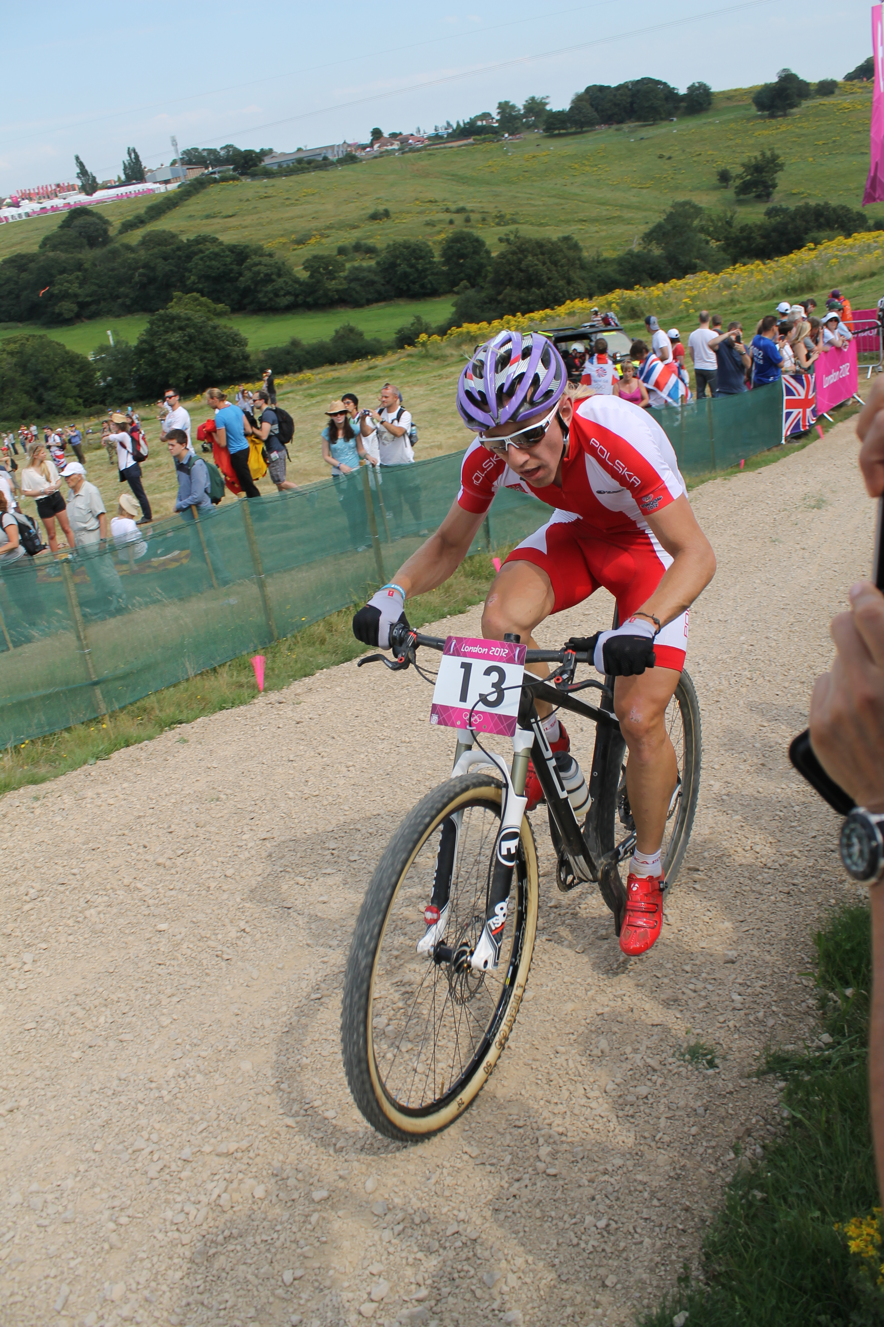 Cycling at the 2012 Summer Olympics – Men's cross-country Marek Konwa (13) (POL) IMG_4029